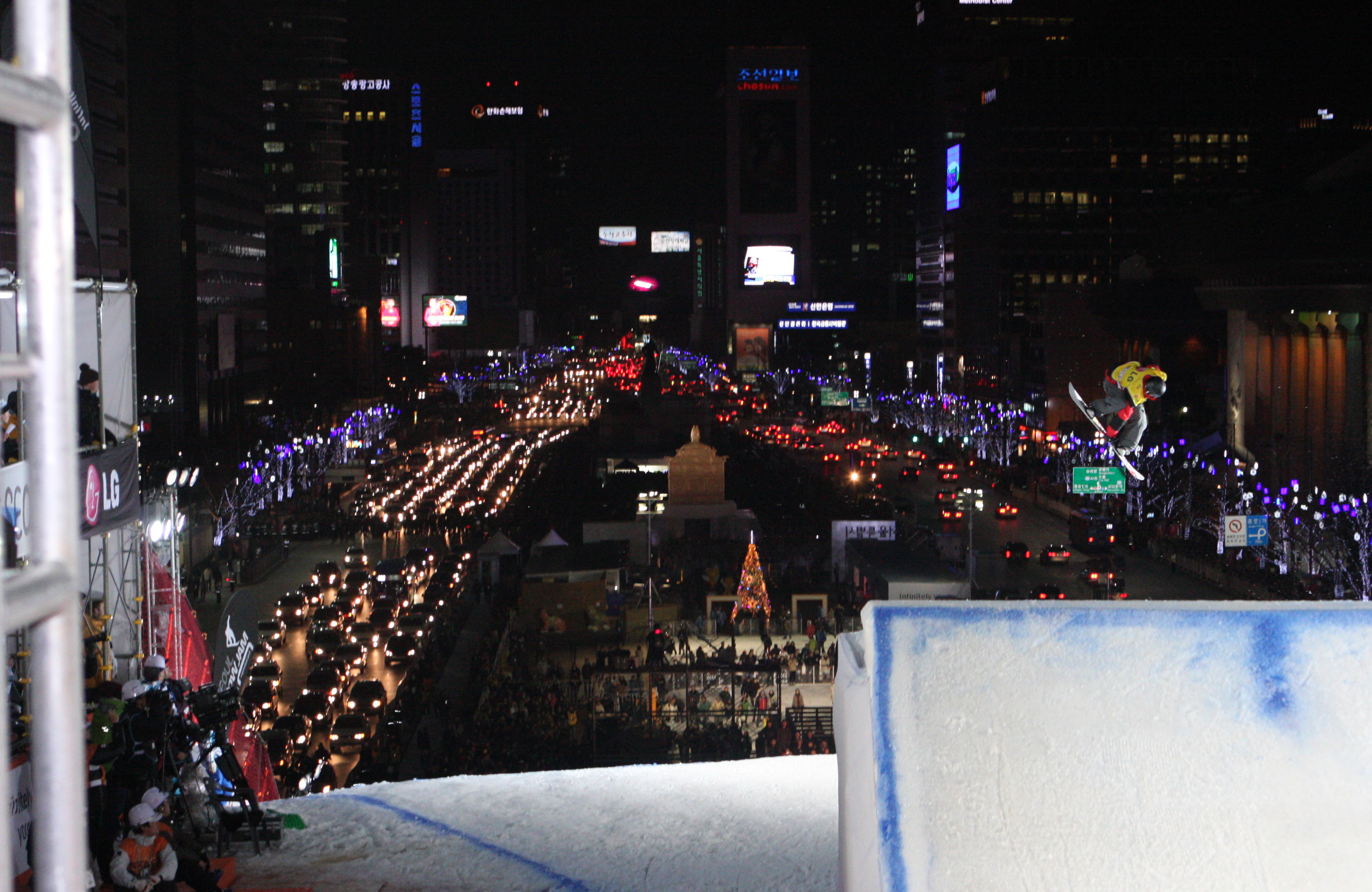 Seoul_Stefan_Gimpl_AUT_nightshot